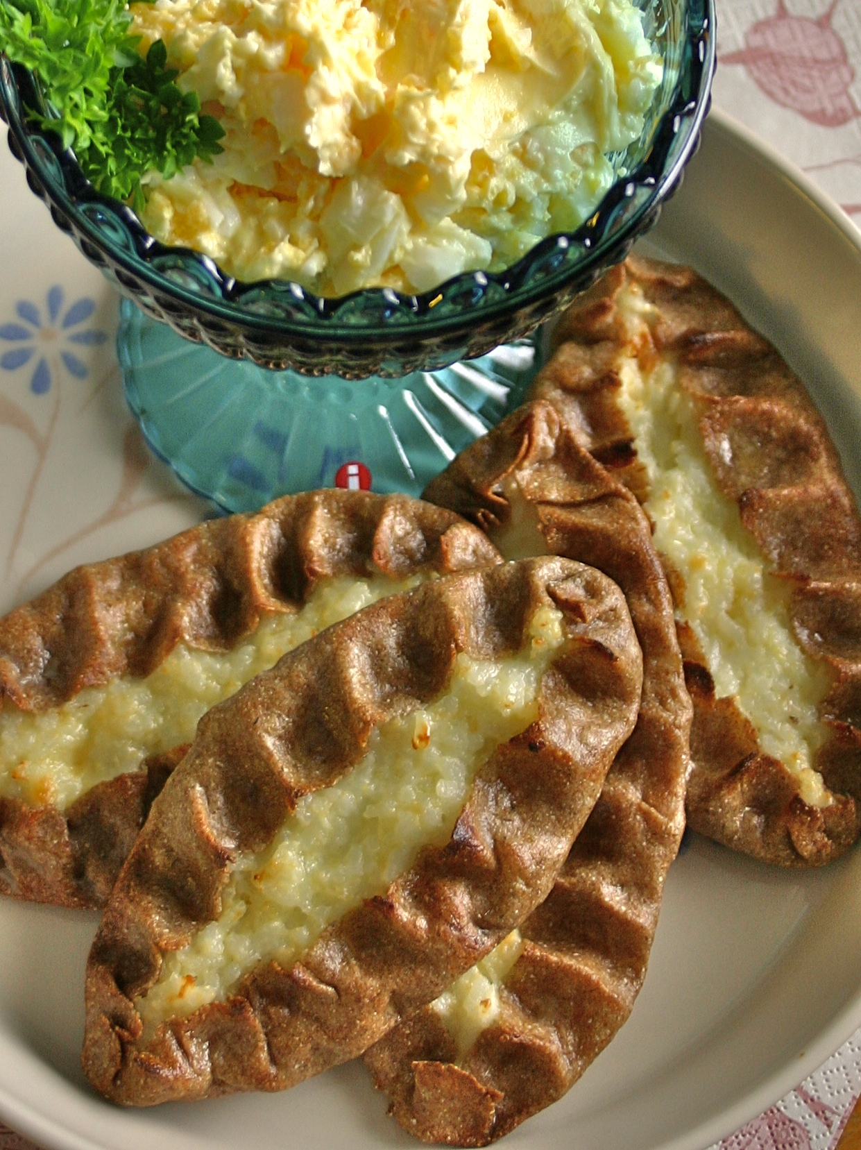 Karelian pasties and egg butter, my recipe in Japanese 日本語レシピこちら↓